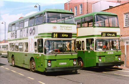 Two Nottingham City Transport double-deck buses at Bulwell bus station. On the left is a Leyland Atlantean with Northern Counties body, fleet number 430. On the right is a Volvo B10M with East Lancs body, fleet number 318.